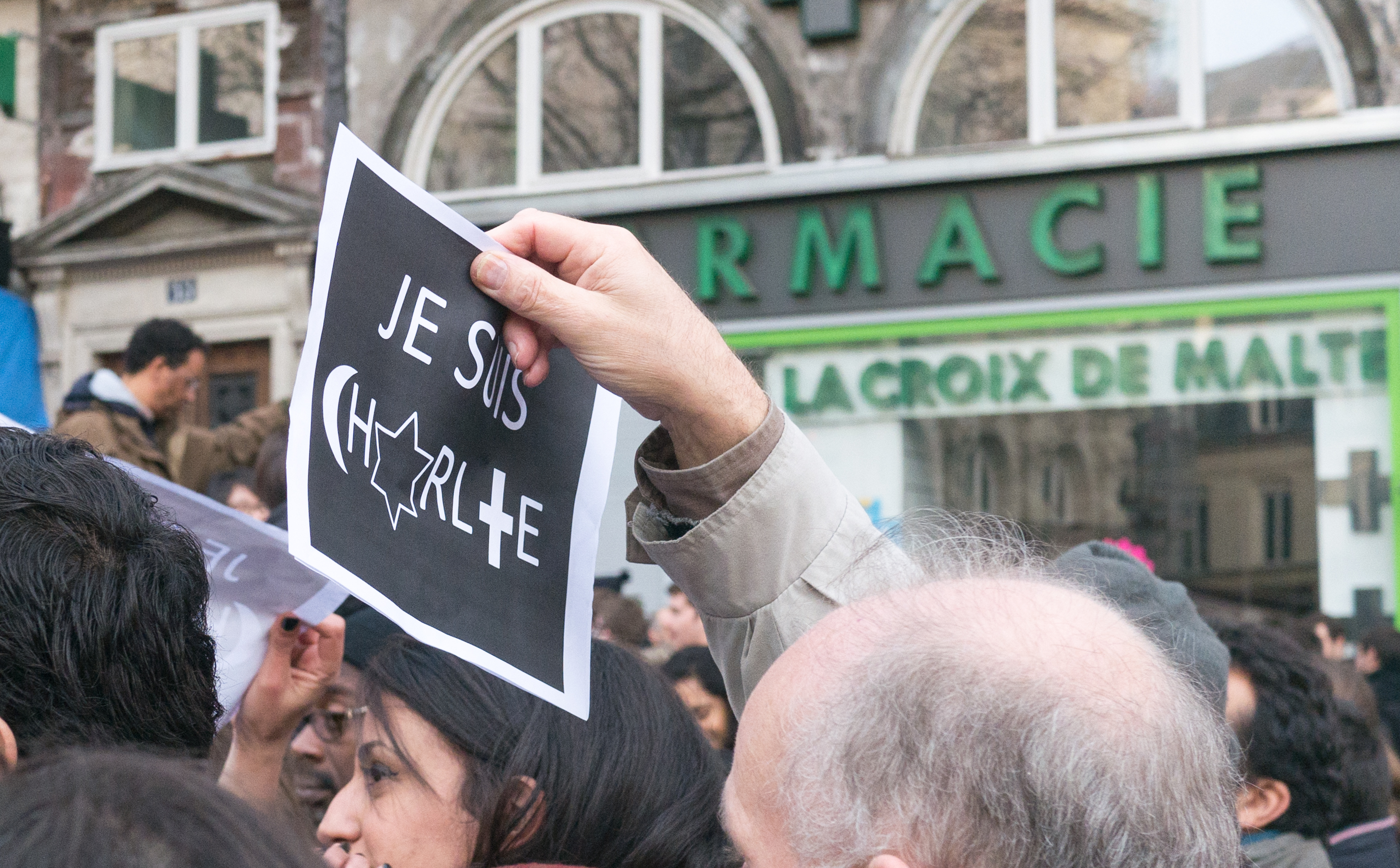 Paris rally in support of the victims of the 2015 Charlie Hebdo shooting, 11 January 2015.